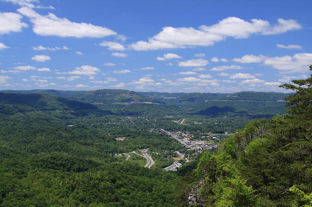 The city of Middlesboro as viewed from the Pinnacle Overlook in the Cumberland Gap National Historic Park. You can easily see the crater that city is built in.